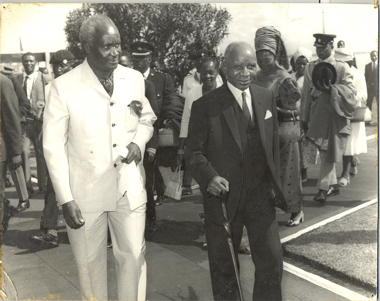 Dr Banda and Kenneth Kaunda of Zambia